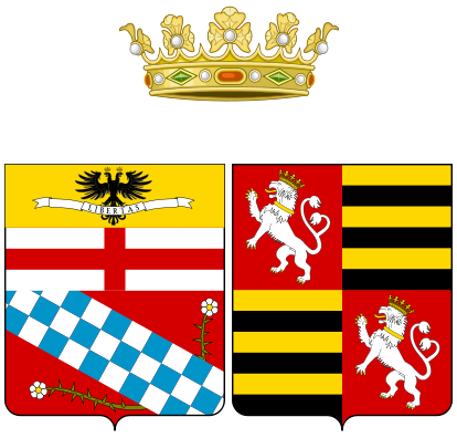 COA Ricciarda Gonzaga, Duchess of Massa